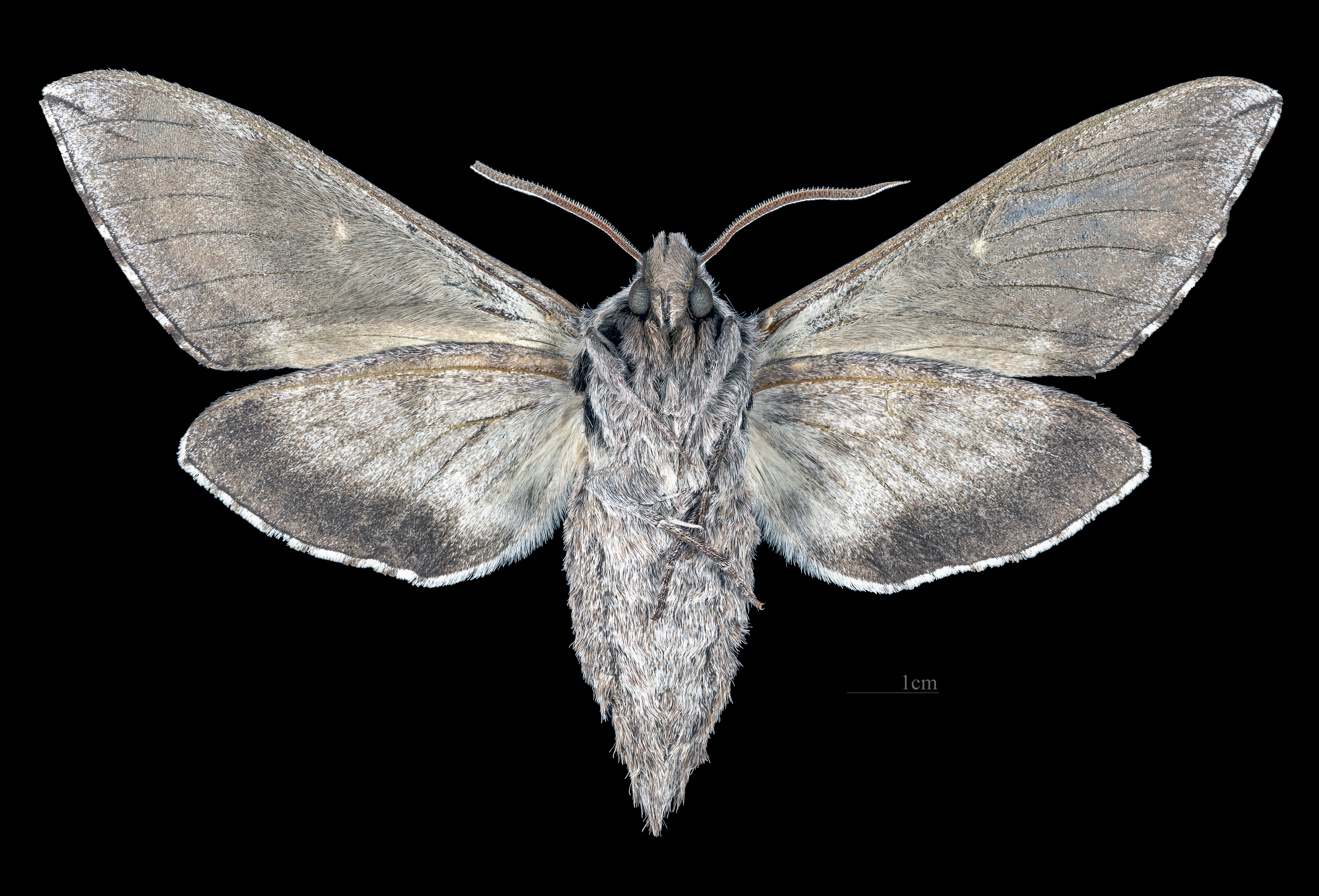 Sphinx gordius - △ Ventral side Collection of the Mathematician Laurent Schwartz